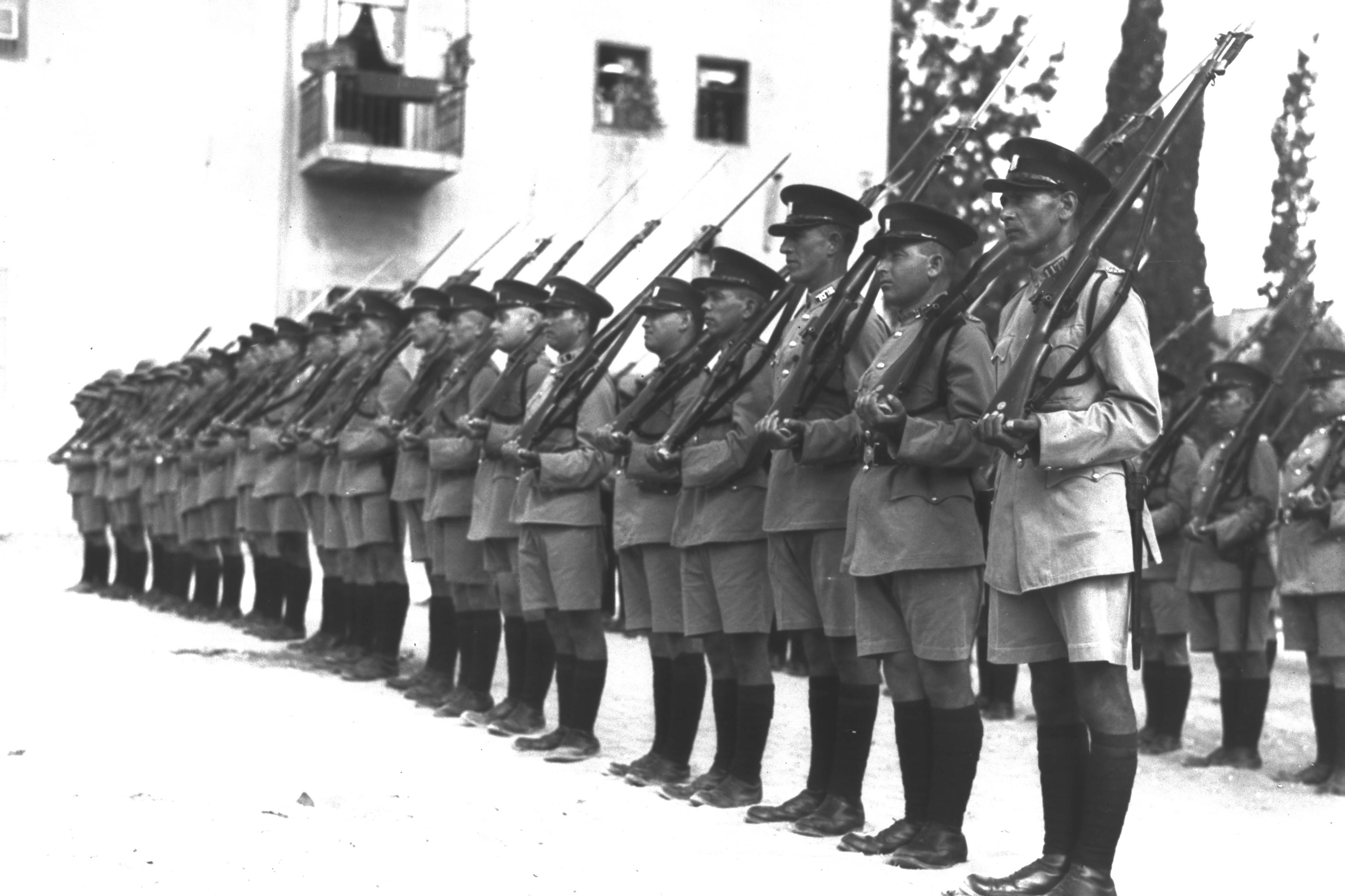 MEMBERS OF THE BRITISH POLICE PARTICIPATING IN A PARADE IN TEL AVIV.